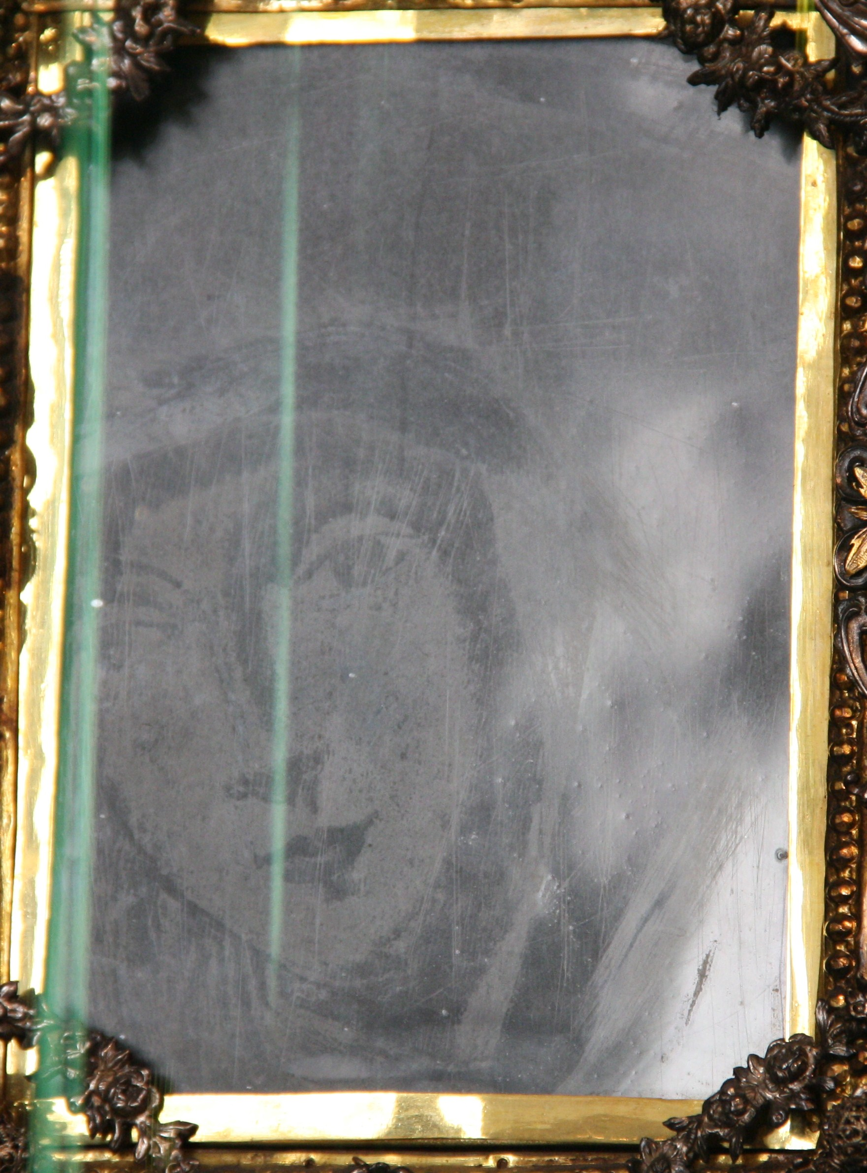 Austria, Tyrol (state), Absam. The image impressed on January, 17, 1797 on the window of Rosina Buecher’s house.